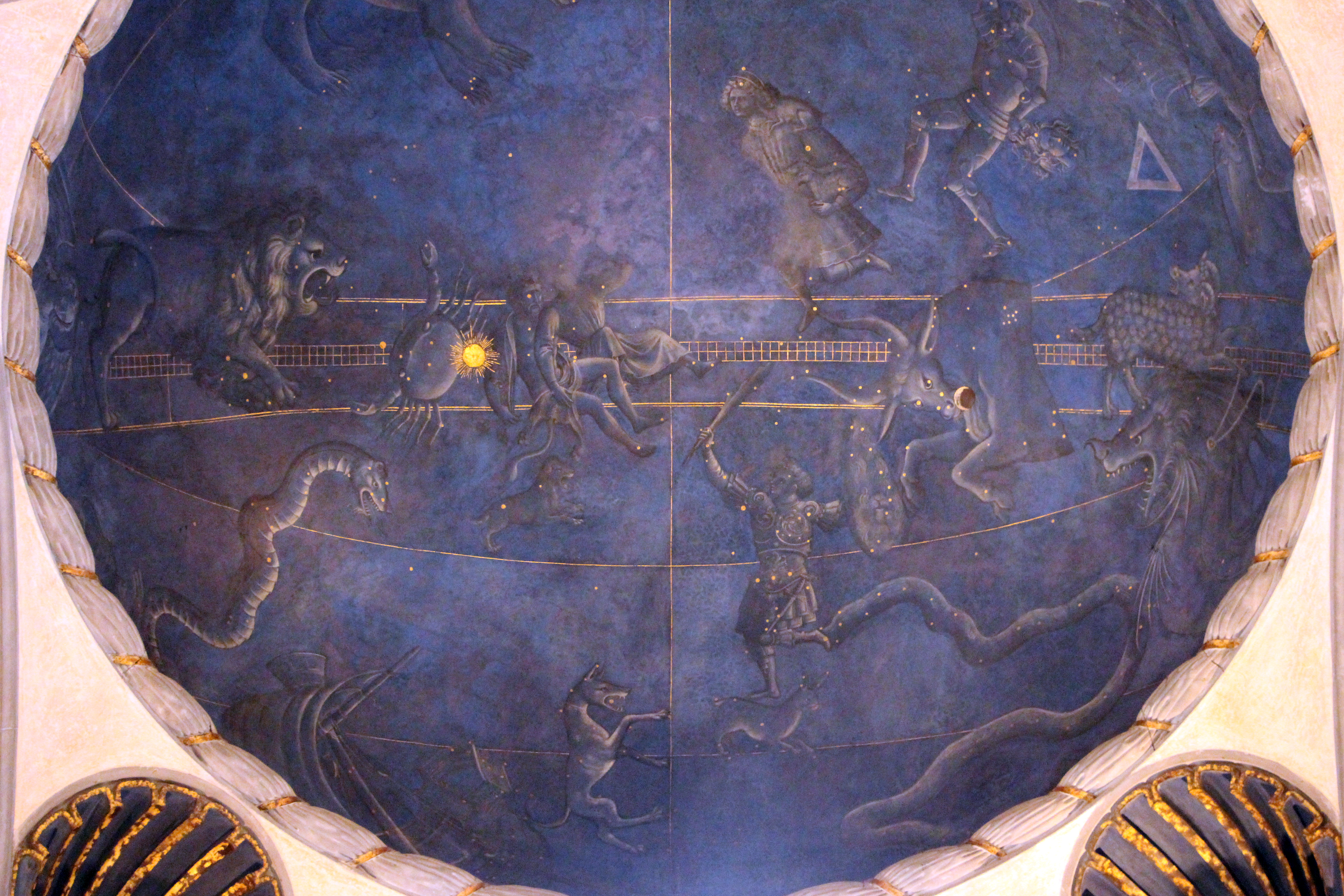 Sagrestia Vecchia